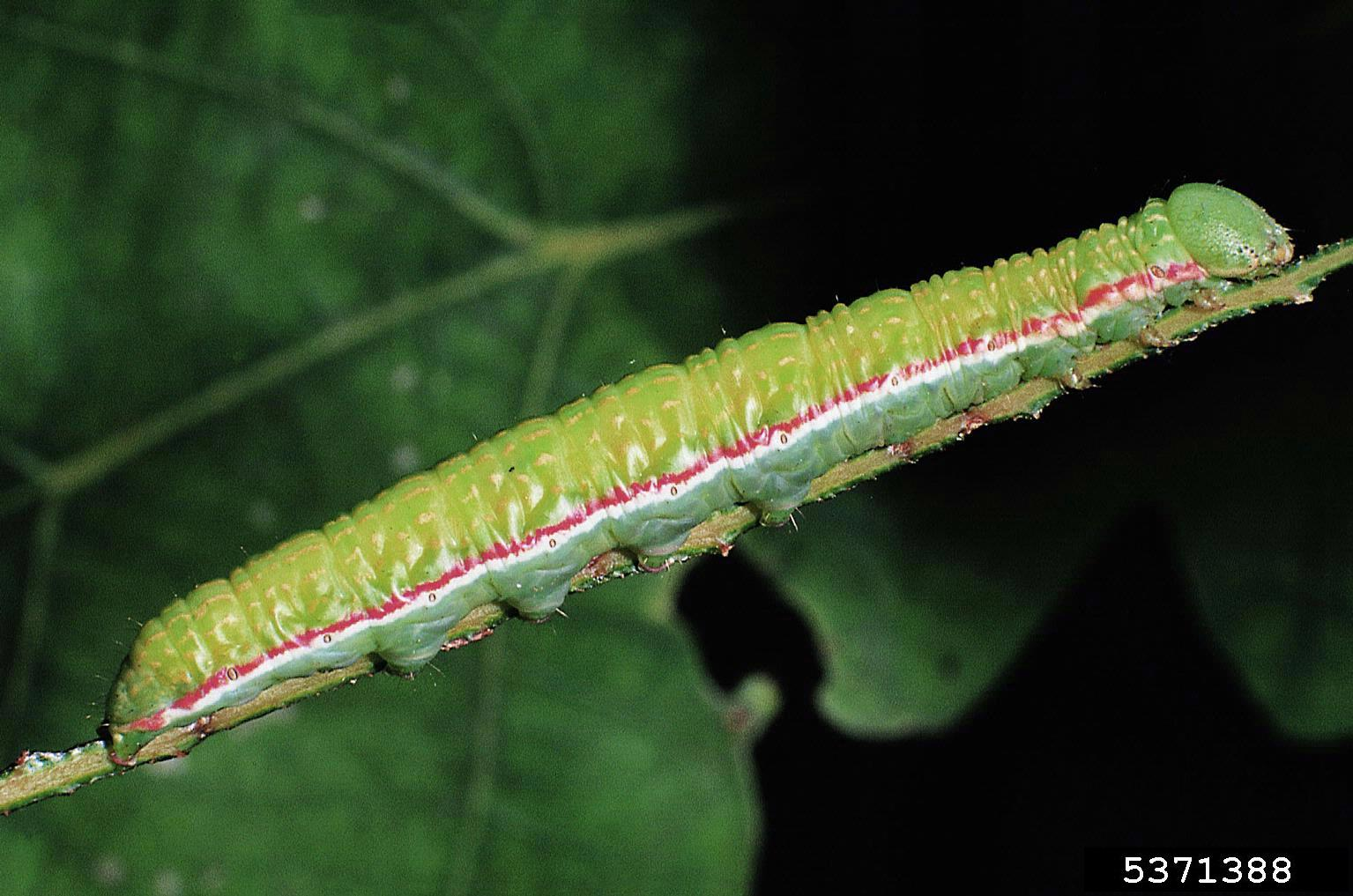 Drymonia velitaris, caterpillar